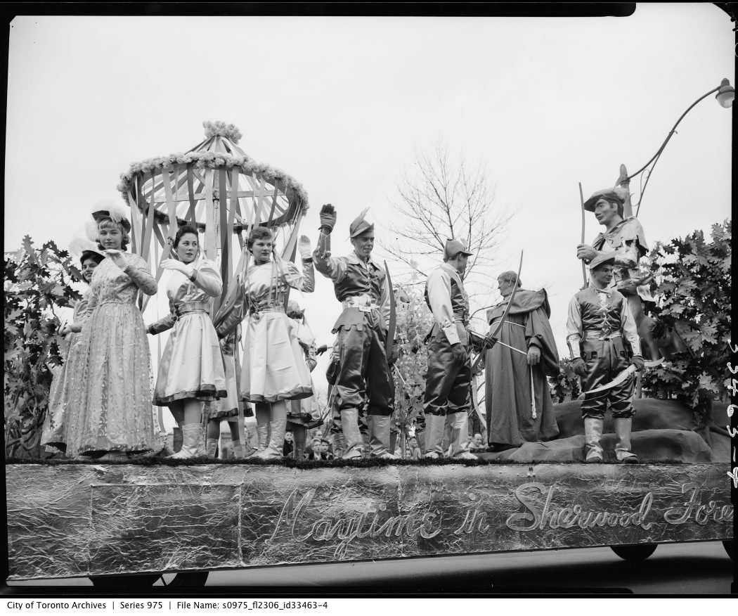 Photographer: Gilbert A. Milne Co. Ltd. November 17, 1956 City of Toronto Archives Series 975, File 2306, Item 33463-4